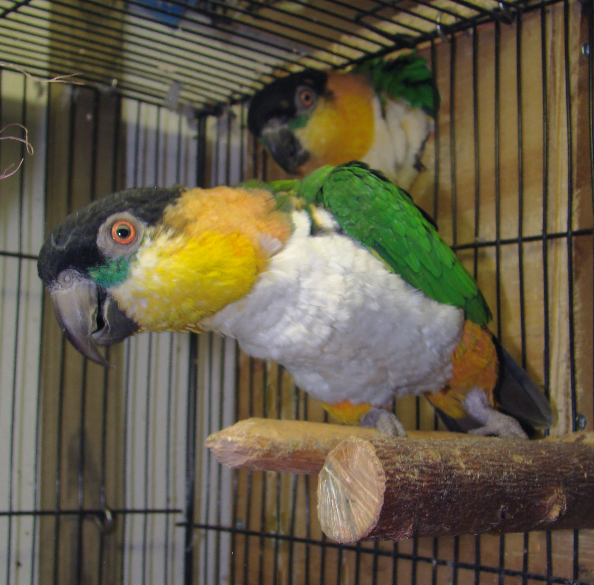 Black Headed Caique (Pionites melanocephalus) - Adult pet birds in a cage